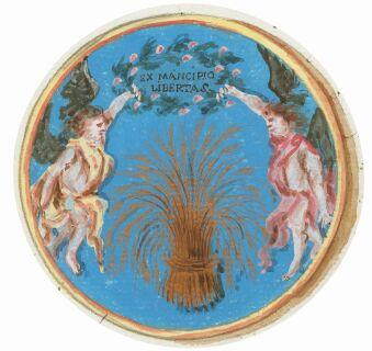 Coat of Arms of Žasliai city in 1791